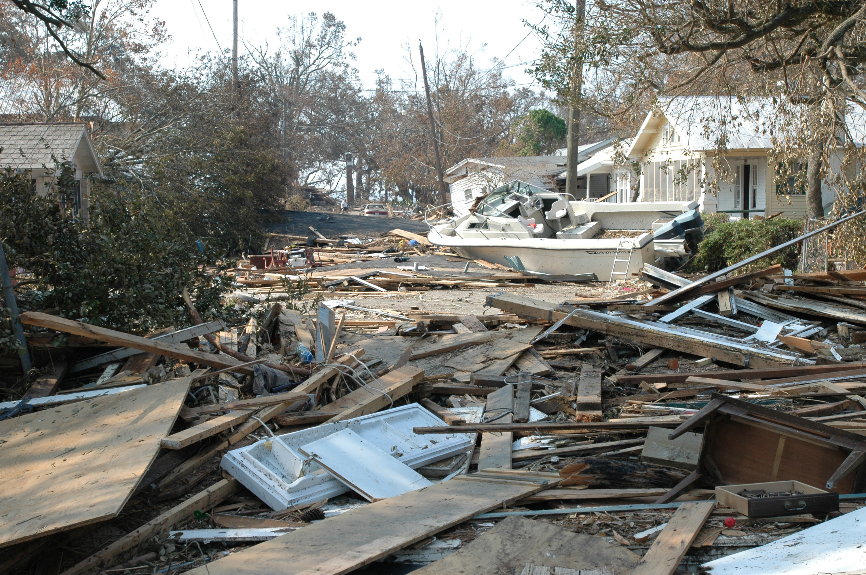 Biloxi, Mississippi, September 3, 2005 -- Damage and destruction to houses in Biloxi, Mississippi. Hurricane Katrina caused extensive damage all along the Mississippi gulf coast.